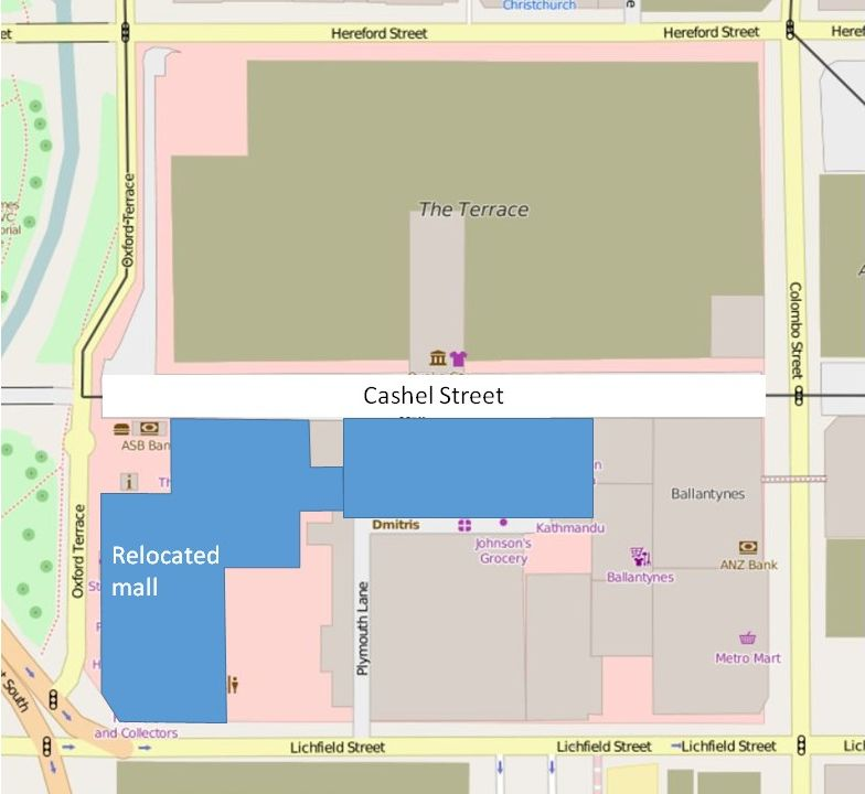 Second location of the Re:START mall. Basemap is OpenStreetMap licensed as CC BY-SA